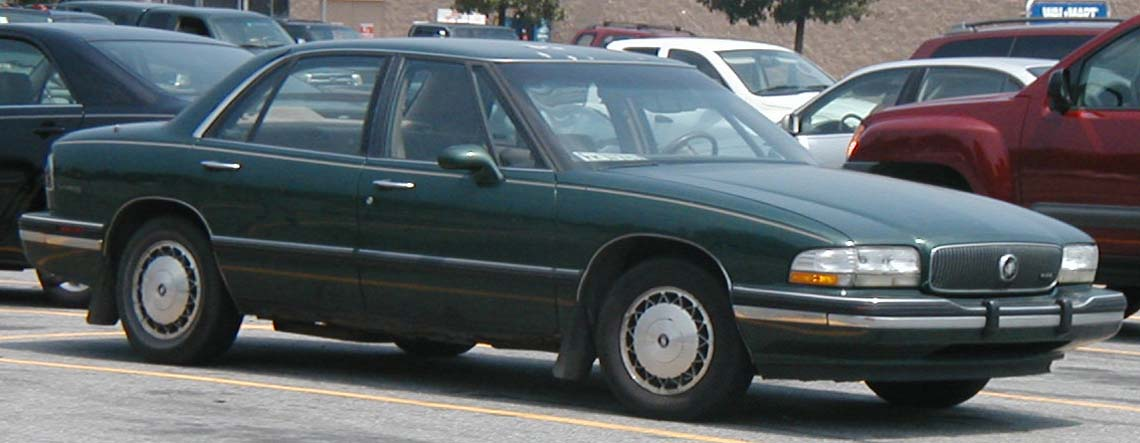 1992-1999 Buick LeSabre photographed in USA.